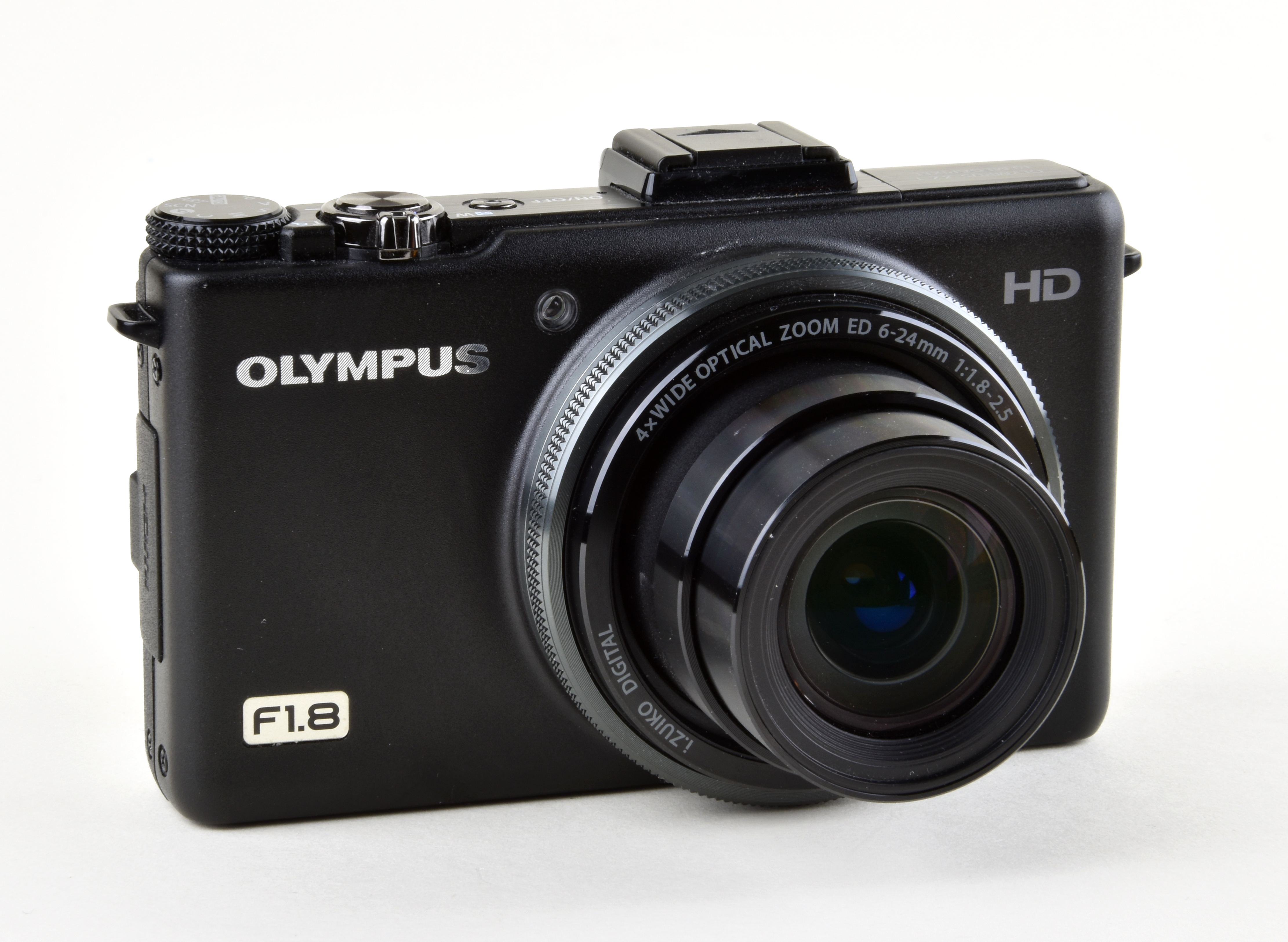 Olympus XZ-1, switched on, lens extended.